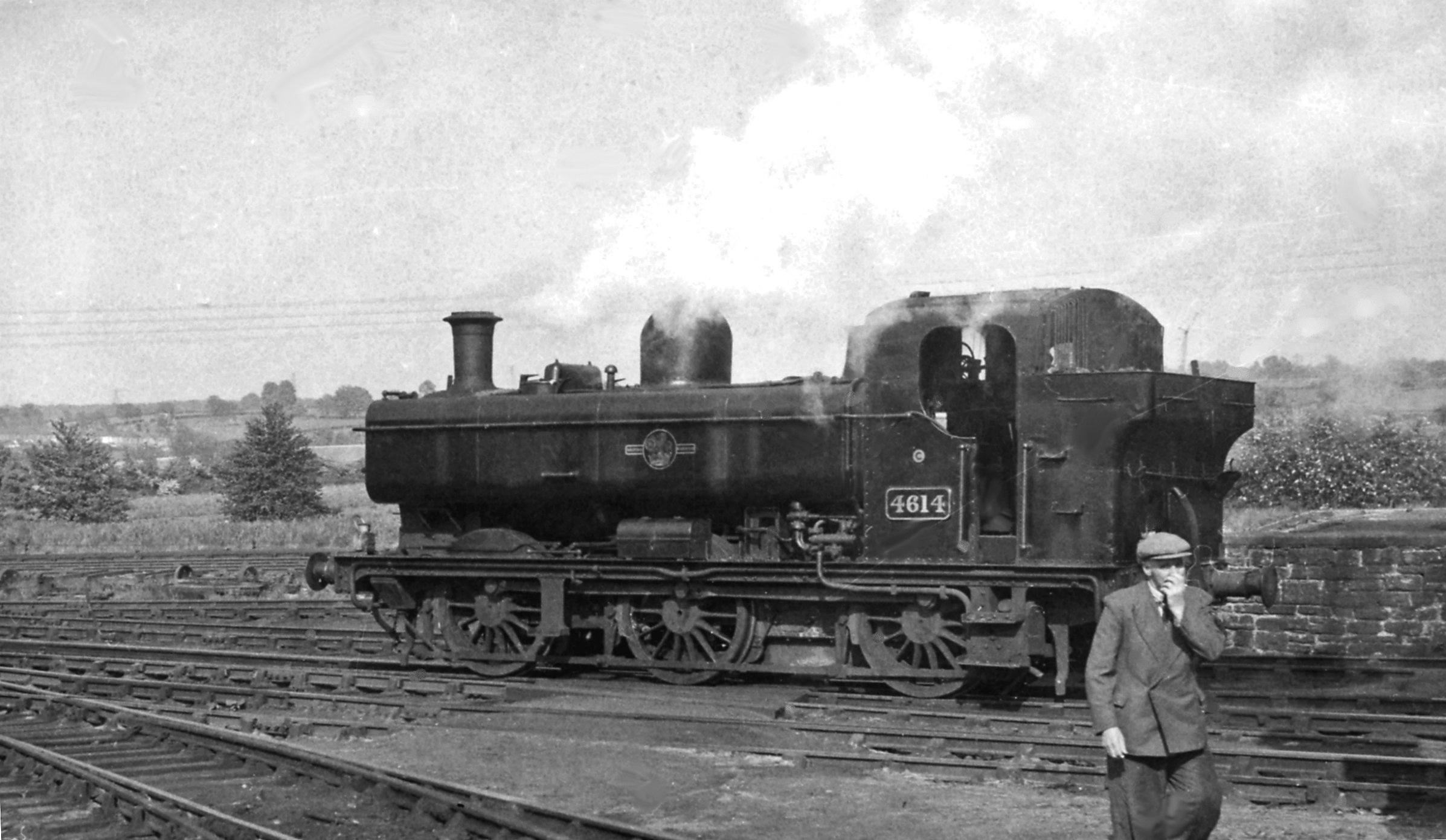 Ex-GW 0-6-0 Pannier tank at Lydney Locomotive Depot. A nice shot - perhaps marred by the bloke in the foreground! - of a Collett '8750' class 0-6-0T, No. 4614 (built 4/42, withdrawn 7/64) outside the small Depot near Lydney Junction station, which provided the locomotives for the ex-Severn & Wye branches into the Forest of Dean from Lydney. Lydney Depot was a Sub-shed to Gloucester (Horton Road), but maintained an allocation of about 15 engines